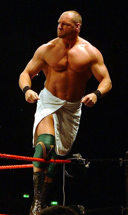 An image of the professional wrestler Val Venis. Other information This is a edited version of a free use image from Wikimedia Commons.